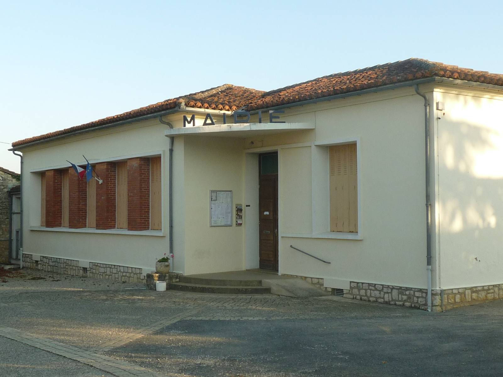 town hall